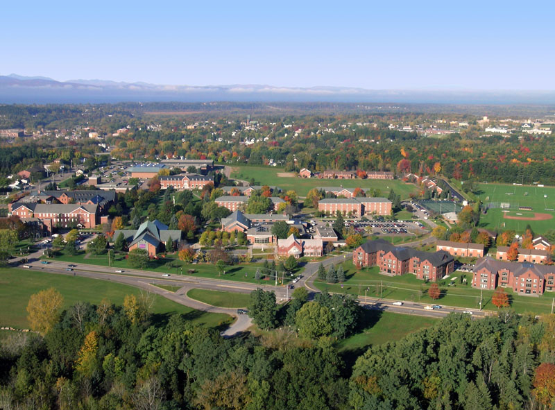 Aerial shot of the main campus of Saint Michael's College, Colchester, Vermont, with Lake Champlain and the Adirondack mountains in the background.